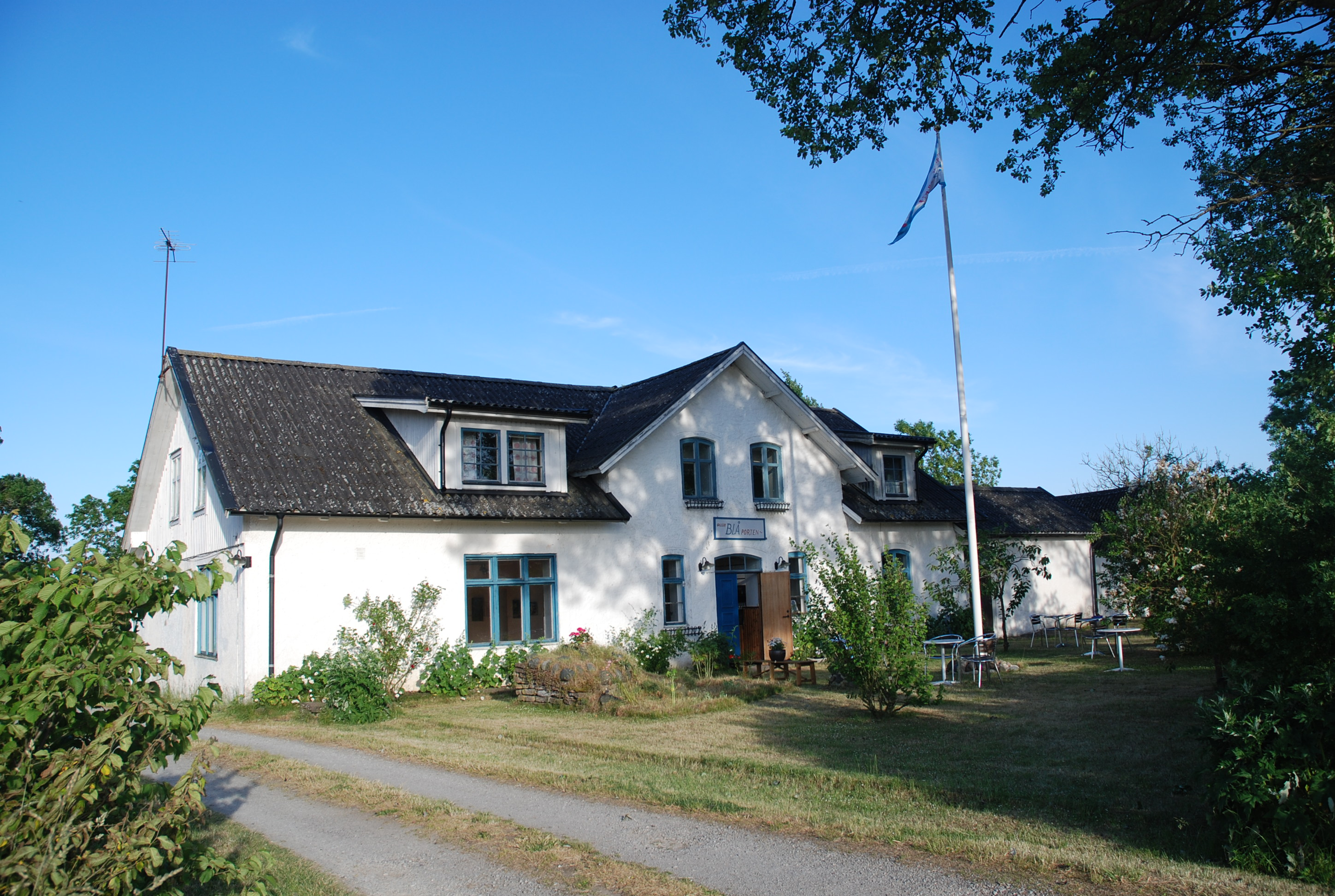 Galleri Blå Porten, Sweden